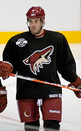 Phoenix Coyotes defenceman Keith Yandle during a team practice in September 2010.